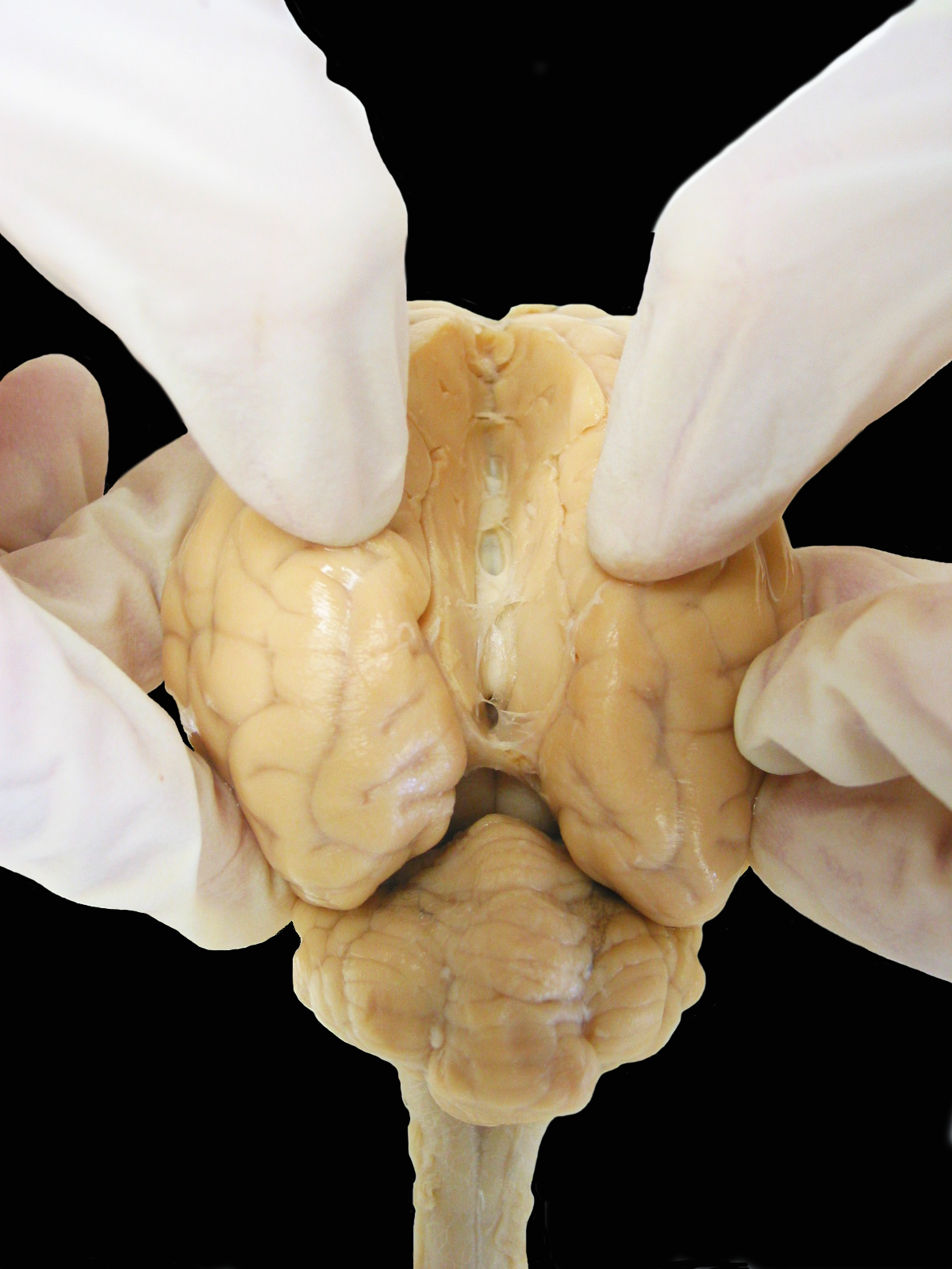 Sheep Brain. Opening longitudinal fissure which is the fissure devide left and right cerebral hemispheres.